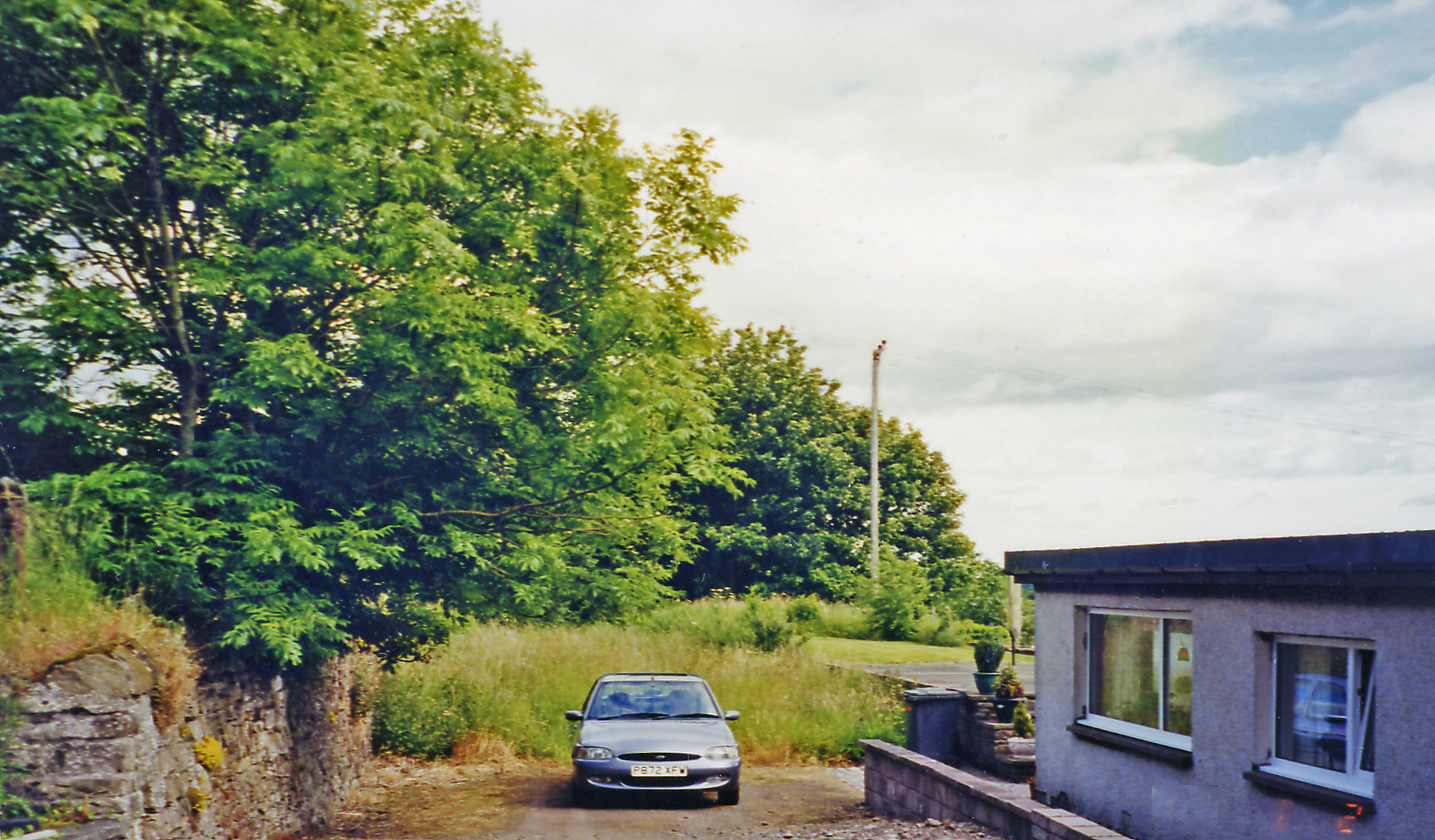 Site of Leysmill station. View NW, towards Guthrie and Forfar: ex-Caledonian Railway Arbroath - Guthrie - (Forfar) line. The station and line were closed to passengers 5/12/55, to goods 25/1/65.